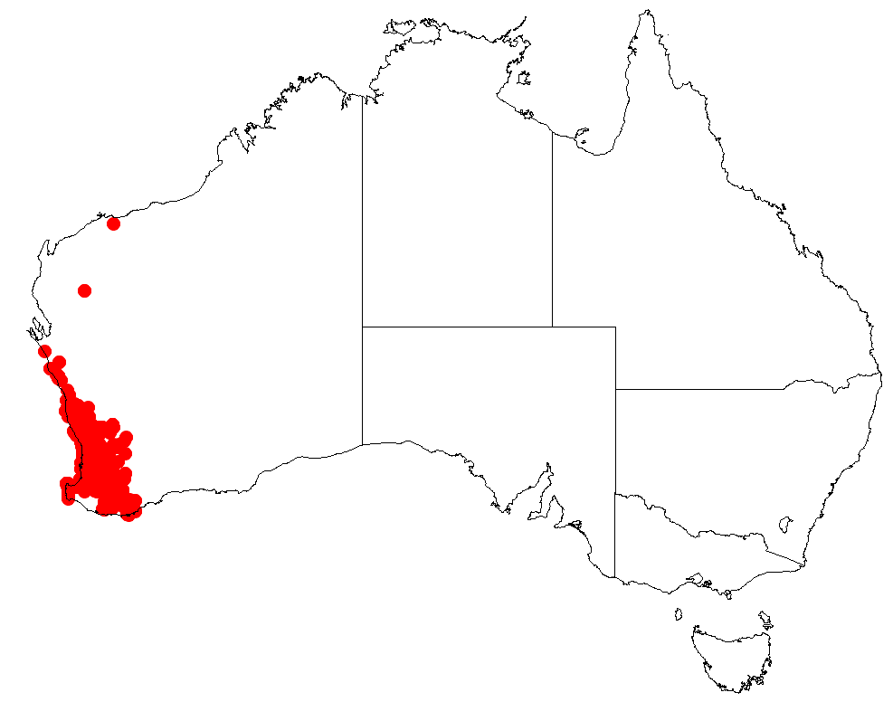 Bossiaea eriocarpa Occurrence data downloaded 11 September 2018 from Australasian Virtual Herbarium